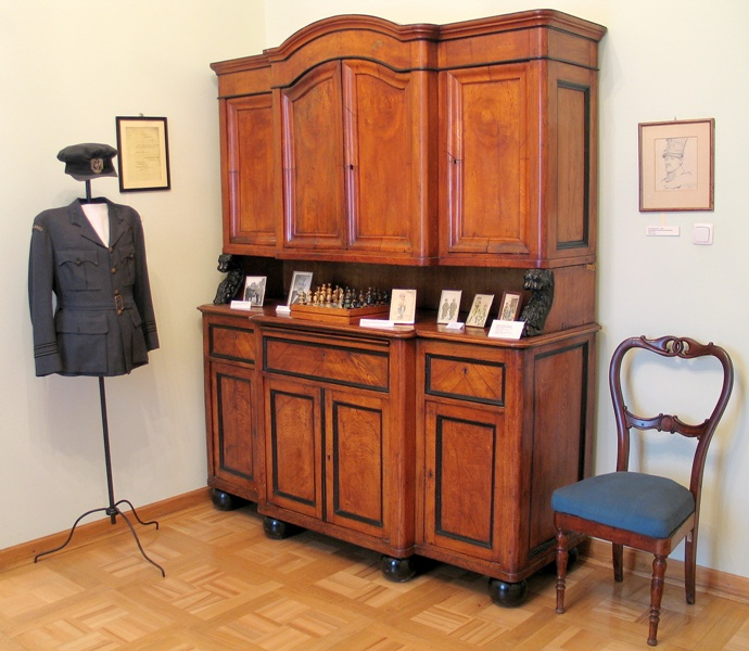 General Władysław Sikorski Room. Sideboard, dress form, uniform.